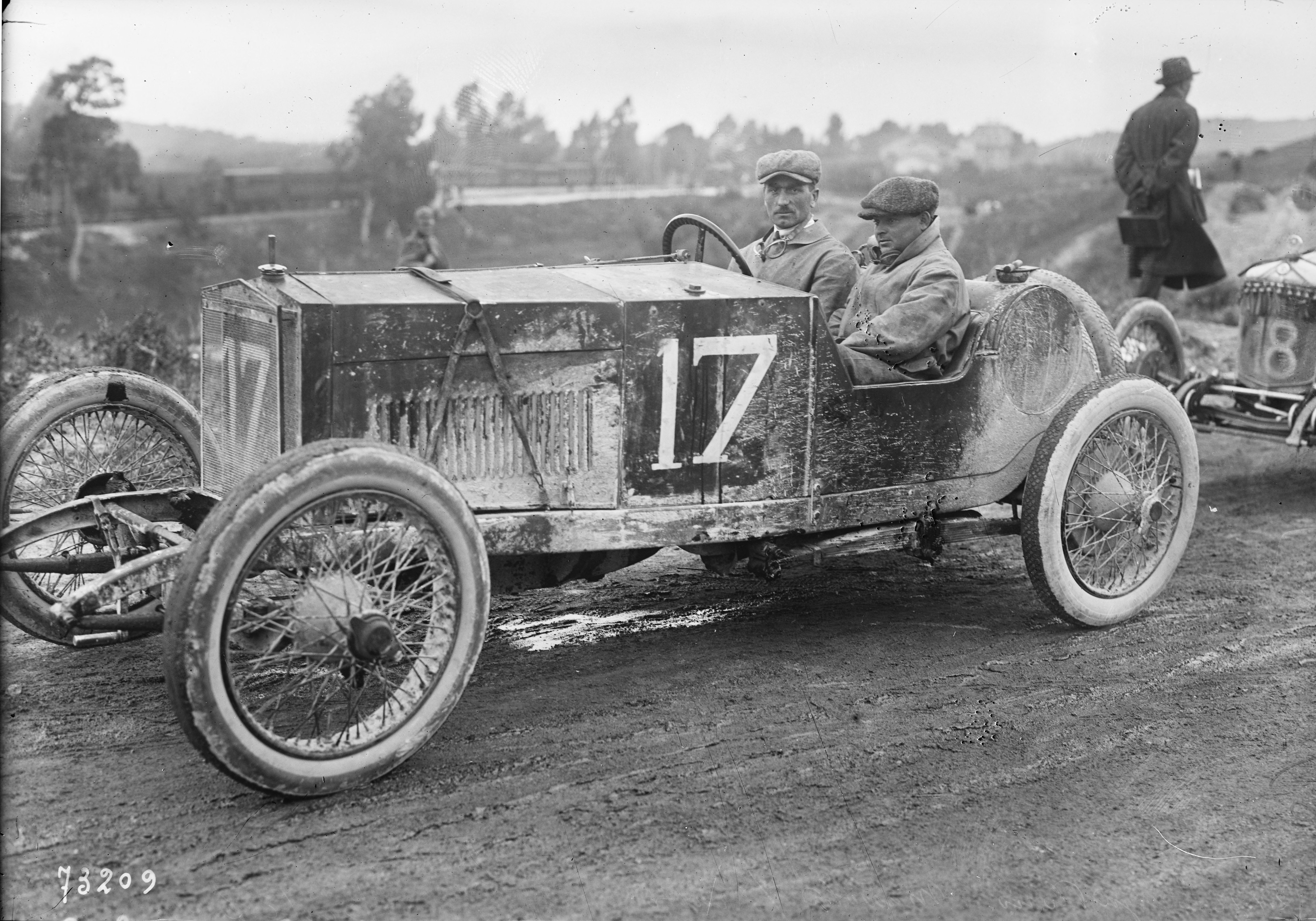 Massola in his Diatto at the Targa Florio on 2 April 1922. They did not finish.[1] This is a Diatto Type 20, 4 cylinders, 2 liters, perhaps the 20 SS DOHC that Alfieri Maserati and Giuseppe Coda made (79.7 mm x 100 mm cylinders giving 1,995.6 ccm and 75 HP at 4,500[2][3])